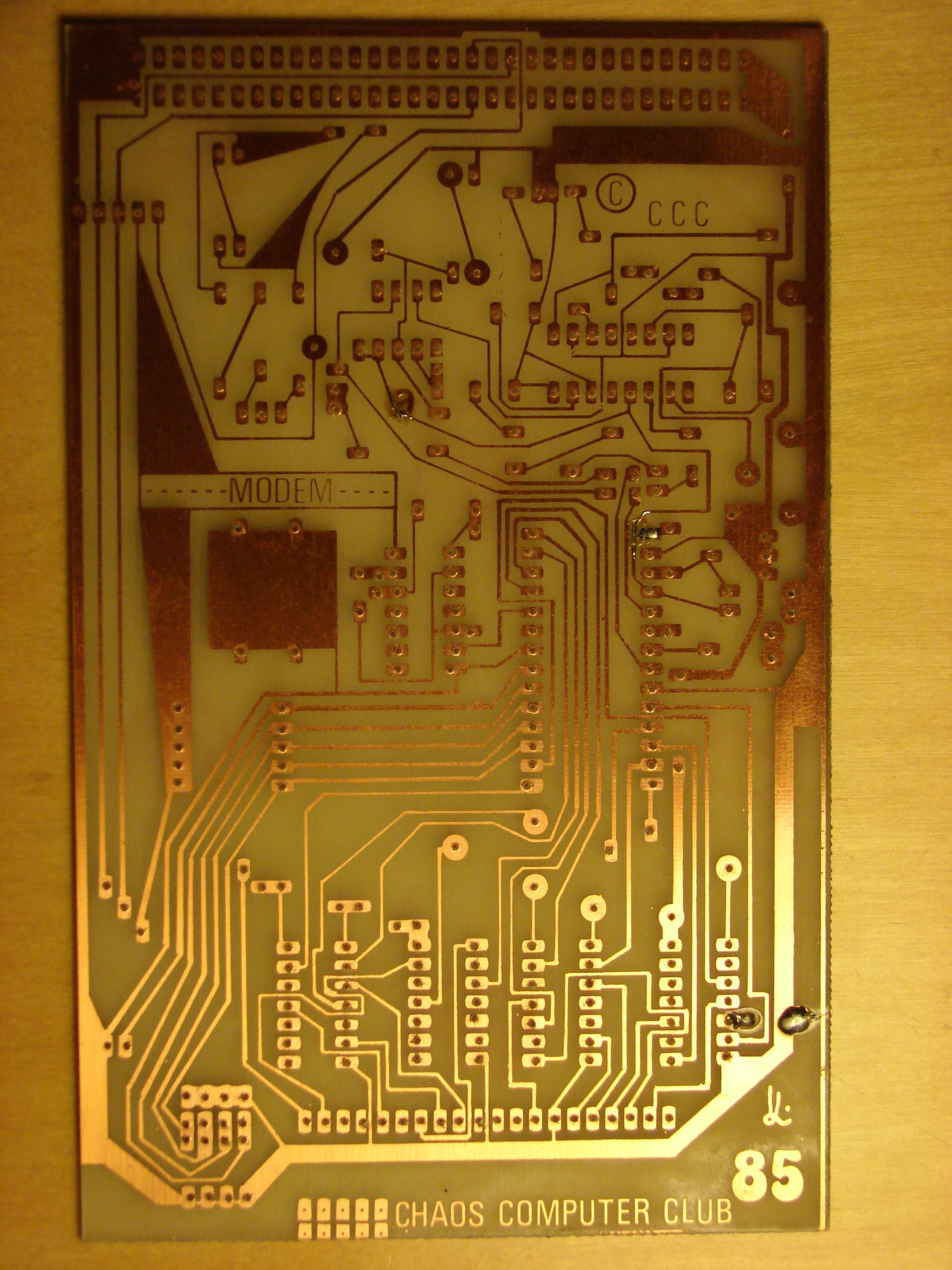 Circuit board of the modem designed by the Chaos Computer Club (CCC) in 1985